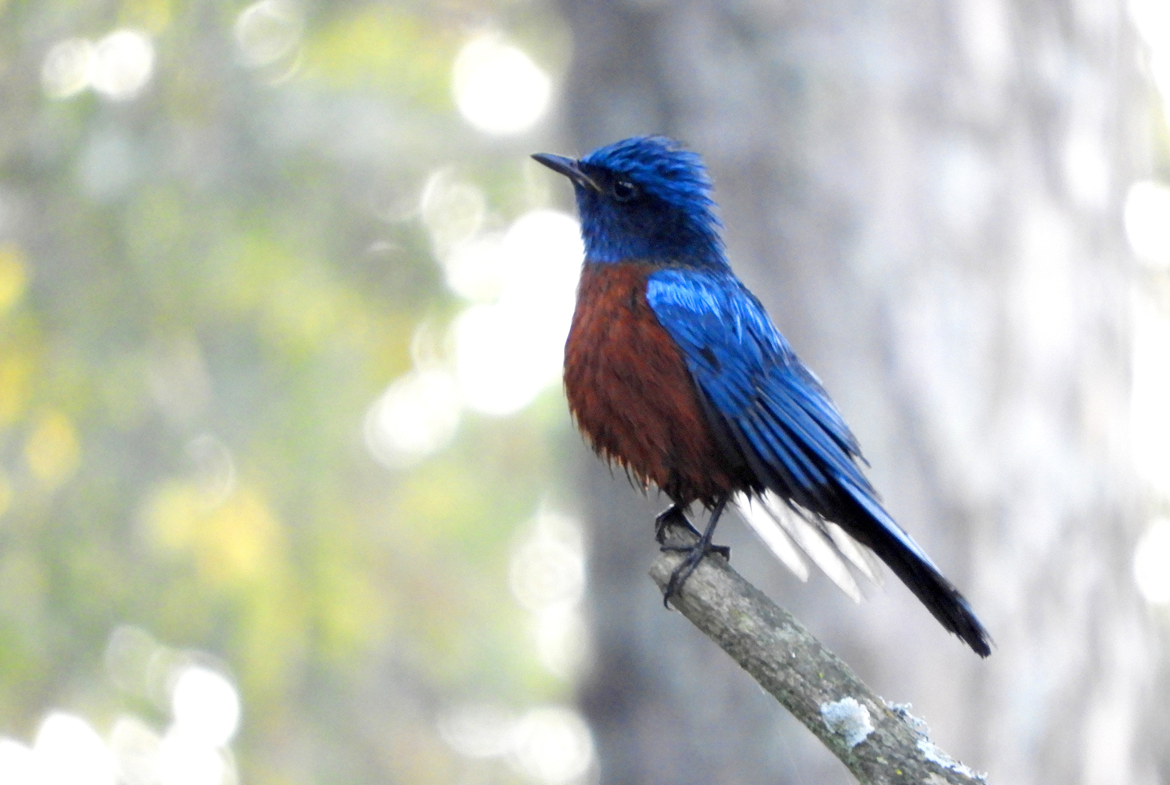 Chestnut-bellied Rock Thrush Male at Almora